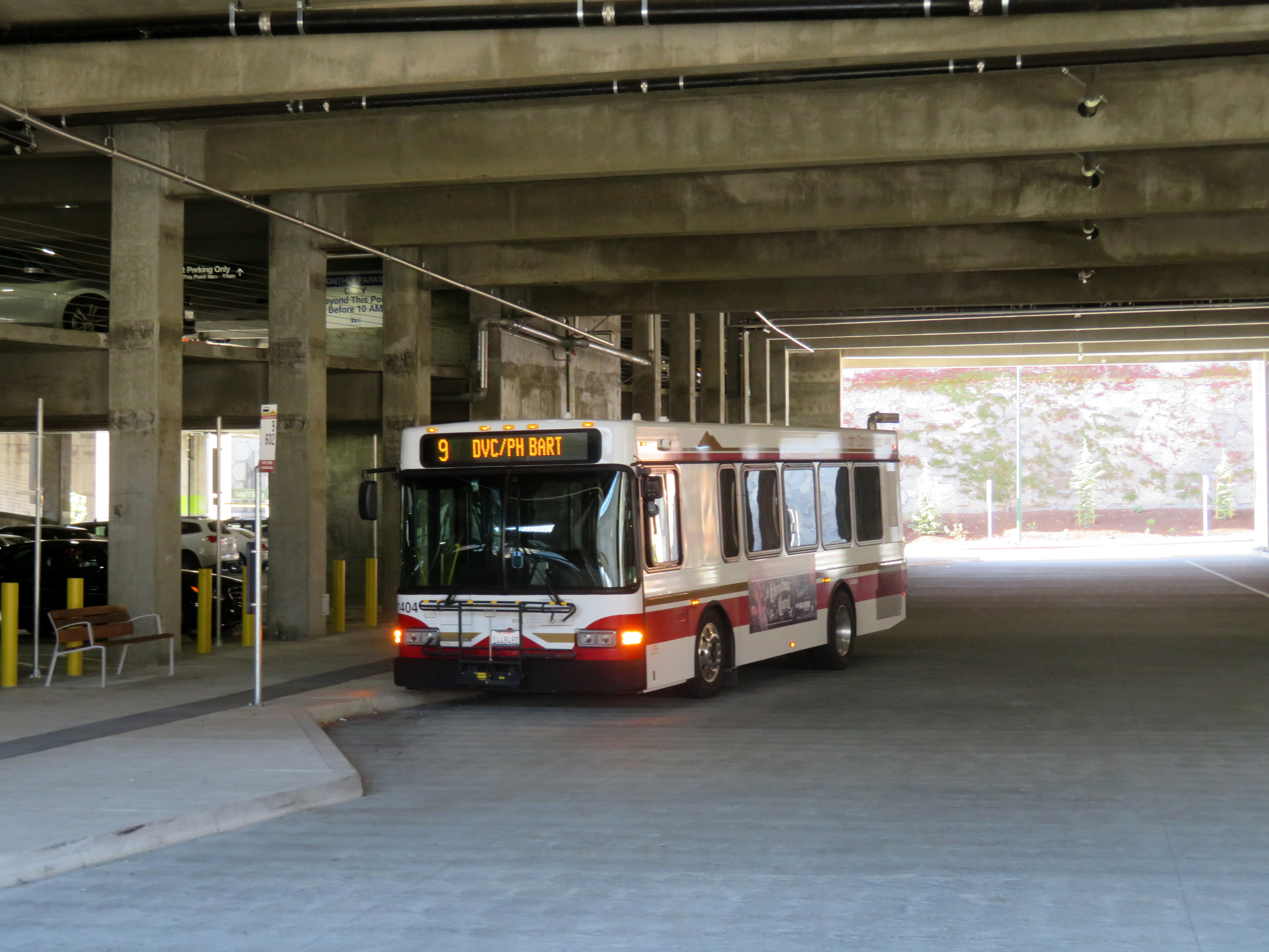 County Connection route 9 bus in the busway inside the south garage at Walnut Creek station in November 2019